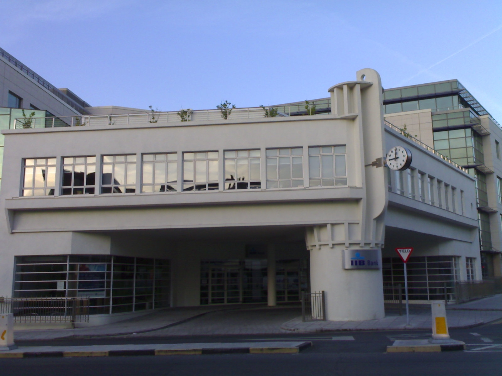 The rebuilt Archers Garage, Fenian Street, Dublin 2 (rebuilt 2004). The original illegally demolished on the June bank holiday 1999. Photo by kolleykibber, taken on a nokia N70 in may 2006.